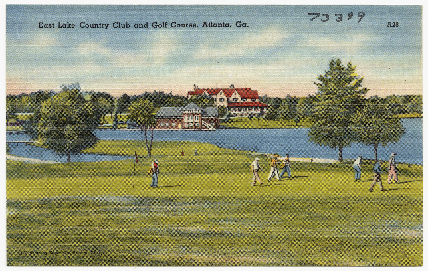 File name: 06_10_013885 Title: East Lake Country Club and Golf Course, Atlanta, Ga. Date issued: 1930 - 1945 (approximate) Physical description: 1 print (postcard) : linen texture, color ; 3 1/2 x 5 1/2 in. Genre: Postcards Subject: Organizations' facilities; Sports & recreation facilities Notes: Title from item. Collection: The Tichnor Brothers Collection Location: Boston Public Library, Print Department Rights: No known restrictions